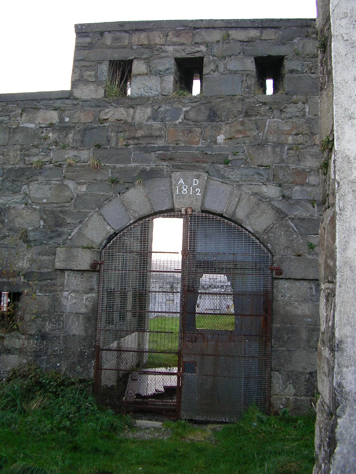 Front gate of Ned's Point Fort near Buncrana, co Donegal